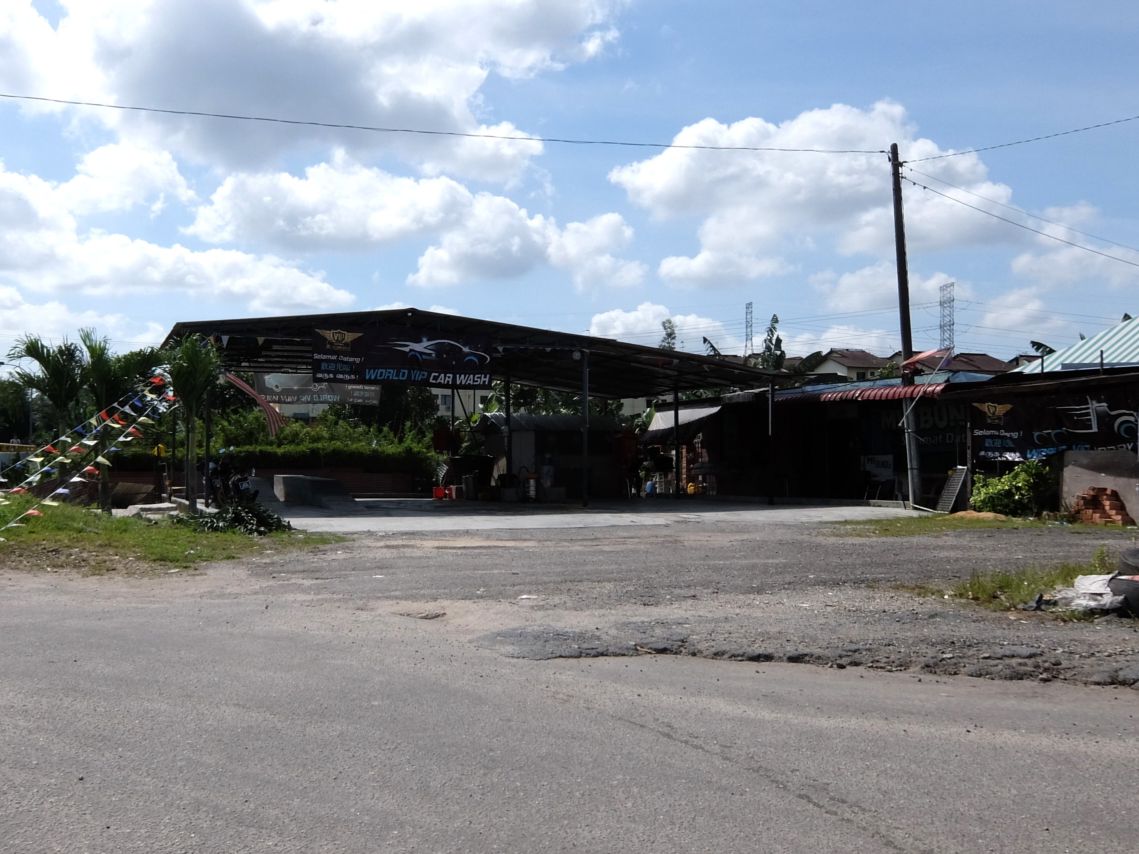 World VIP Car Wash, Skudai, Iskandar Puteri, Johor, Malaysia